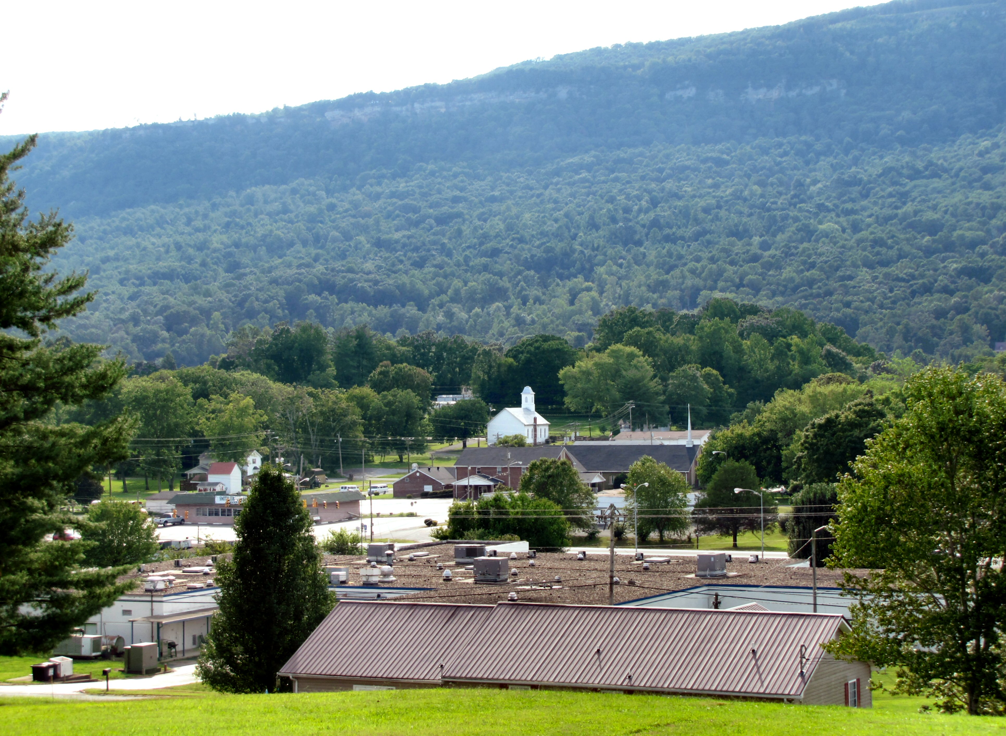 View of Whitwell, Tennessee, United States, with the Cumberland Plateau rising in the background.